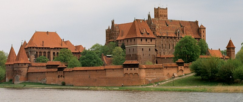 The castle of Malbork, Poland.